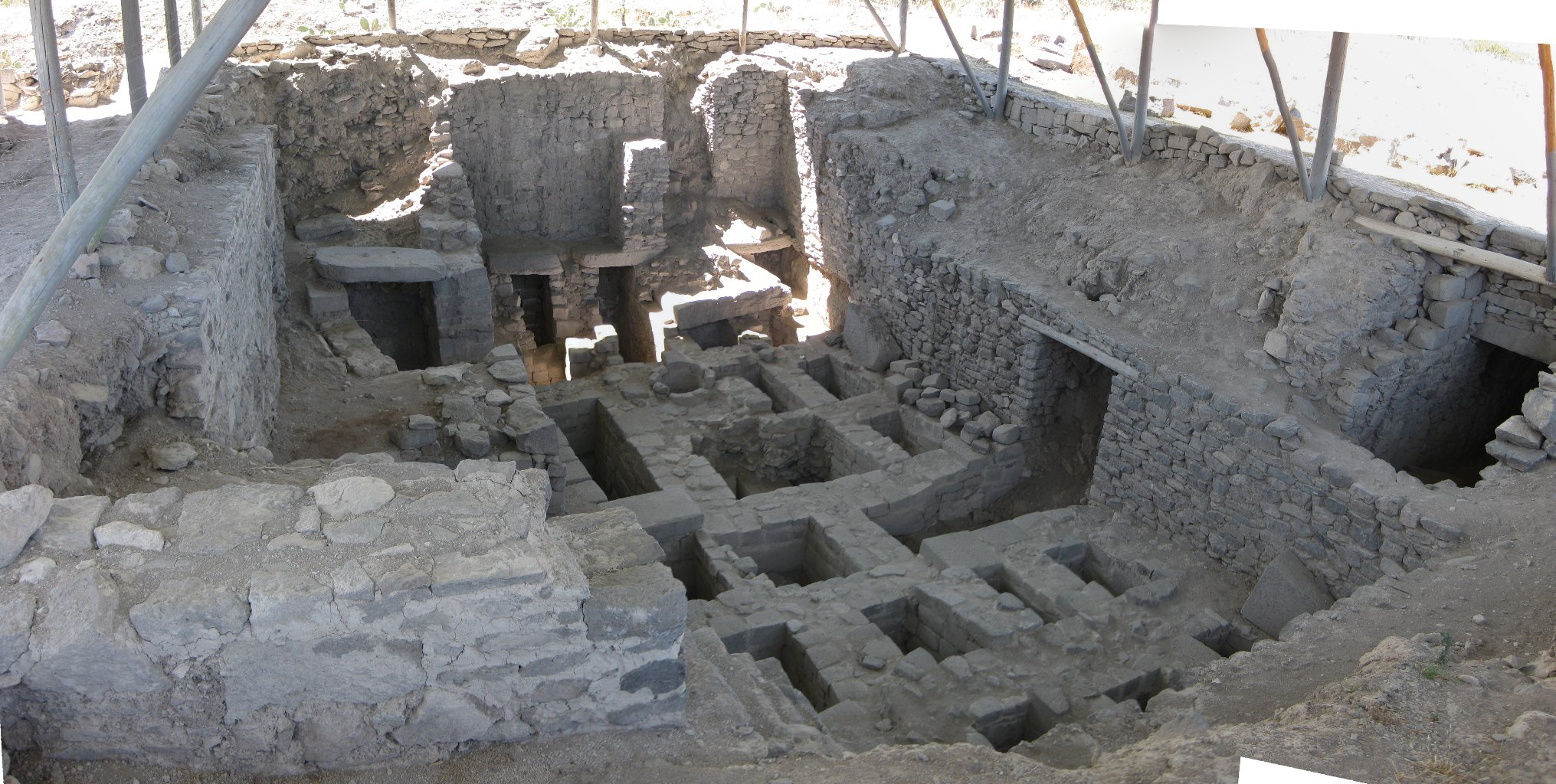 Tomb at the Wari Ruins near Ayacucho. This tomb actually goes down several layers. From here you can see a small circular space in the back: that's where the mummy of the head honcho was placed, curled into a fetal position. On the far right you can see the end of one of two galleries flanking the tomb, also filled with mummies (friends? enemies?). Grain, fabric, and miniature ceramics were placed in the tomb, presumably to be used in the next life.